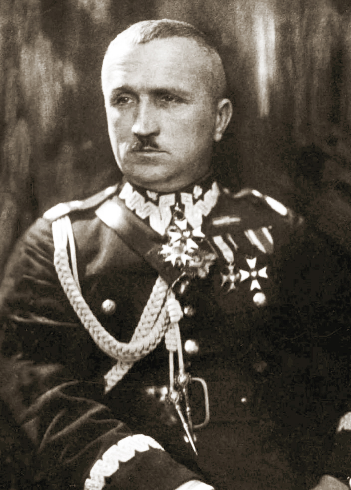 Ferdynand Zarzycki (1888-1958) – General of the Polish Army